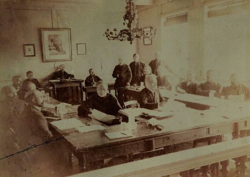 The Løgting, parliament of the Faroe Islands, before 1897. The oldest known photograph of the Løgting.